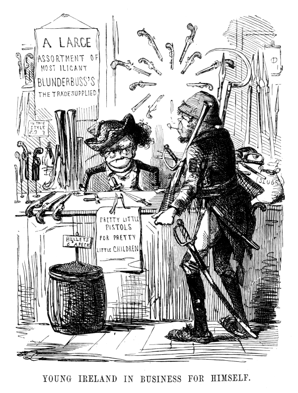 Following the secession of the Young Ireland movement from the Repeal Association of Daniel O'Connell in 1846, a "monkey faced" William Smith O'Brien is shown in a Repeal cap selling bullets, blunderbusses and pistols to an "equally simian looking" Paddy. Signs in the shop read "A large assortment of most ilicant Blunderbuss's, the trade supplied" and "Pretty little pistols for pretty little children" According to Williams (2003): 175, "The antiquated firearms and primitive agricultural weapons suggest the inadequacy of nationalist military resources and the foolishness of the idea that Ireland could overthrow England by arms."